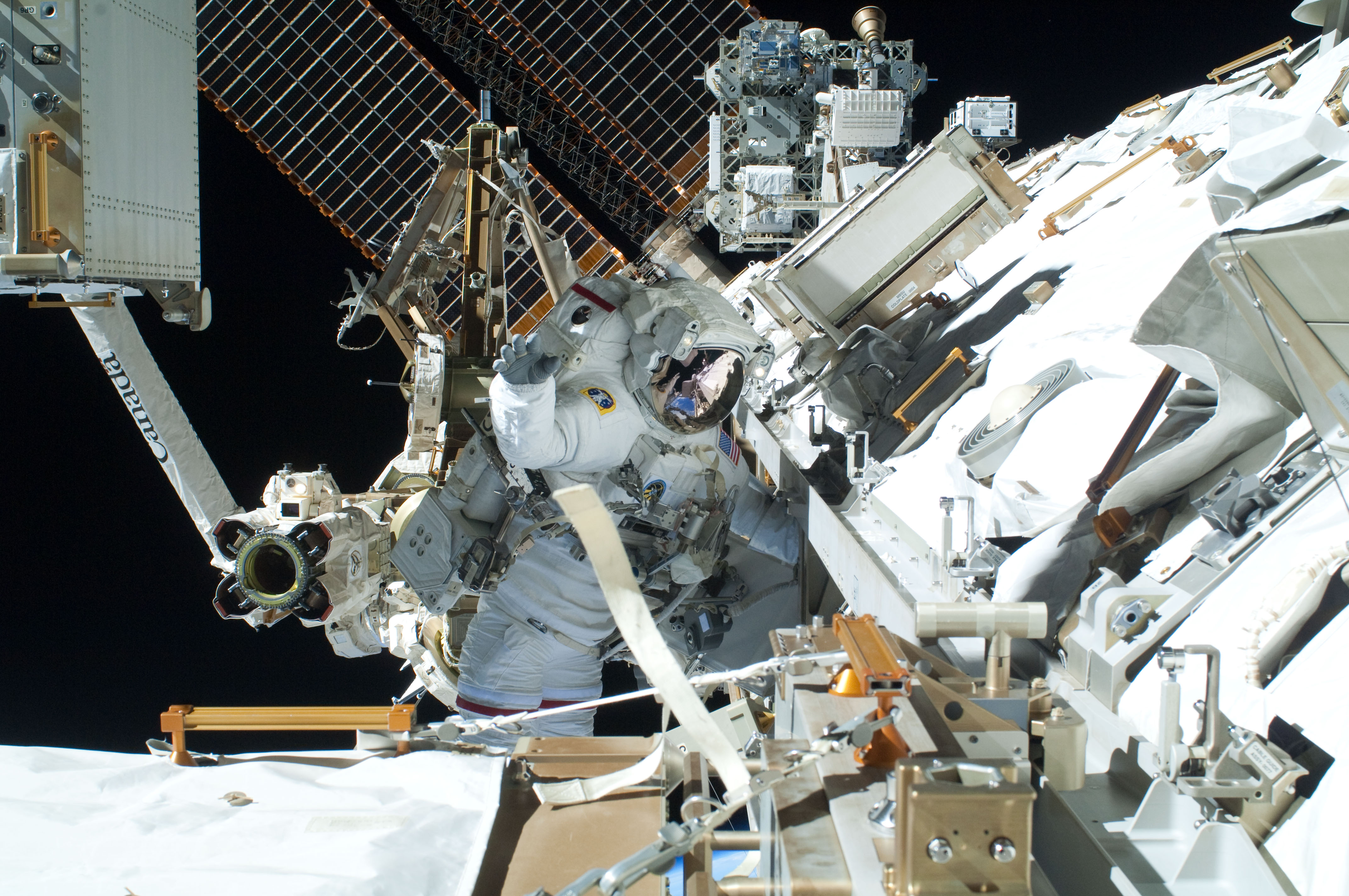 NASA astronaut Rick Mastracchio, STS-131 mission specialist, participates in the mission's second session of extravehicular activity (EVA) as construction and maintenance continue on the International Space Station. During the seven-hour, 26-minute spacewalk, Mastracchio and astronaut Clayton Anderson (out of frame), mission specialist, unhooked and removed the depleted ammonia tank and installed a 1,700-pound ammonia tank on the station's Starboard 1 truss, completing the second of a three-spacewalk coolant tank replacement process.